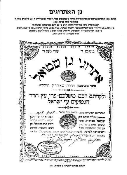 A kosher certificate dated 23 Av 5661 (8 August 1901) assuring that Gan-Shmuel's etrogim (Citrus medica) are appropriate for performing the Sukkot holiday ceremony. The etrogim orchard of Gan-Shmuel was planted before the kibbutz was established. The certificate reads: "The etrogim placed in this box, the number of which is (one etrog), are from Gan-Shmuel in Hadera, which we studied and examined and realized that they are not the product of grafting at all, nor are they tevel, nor are there any other concerns about them, and they are appropriate for blessing by the meticulous without any concern or doubt."